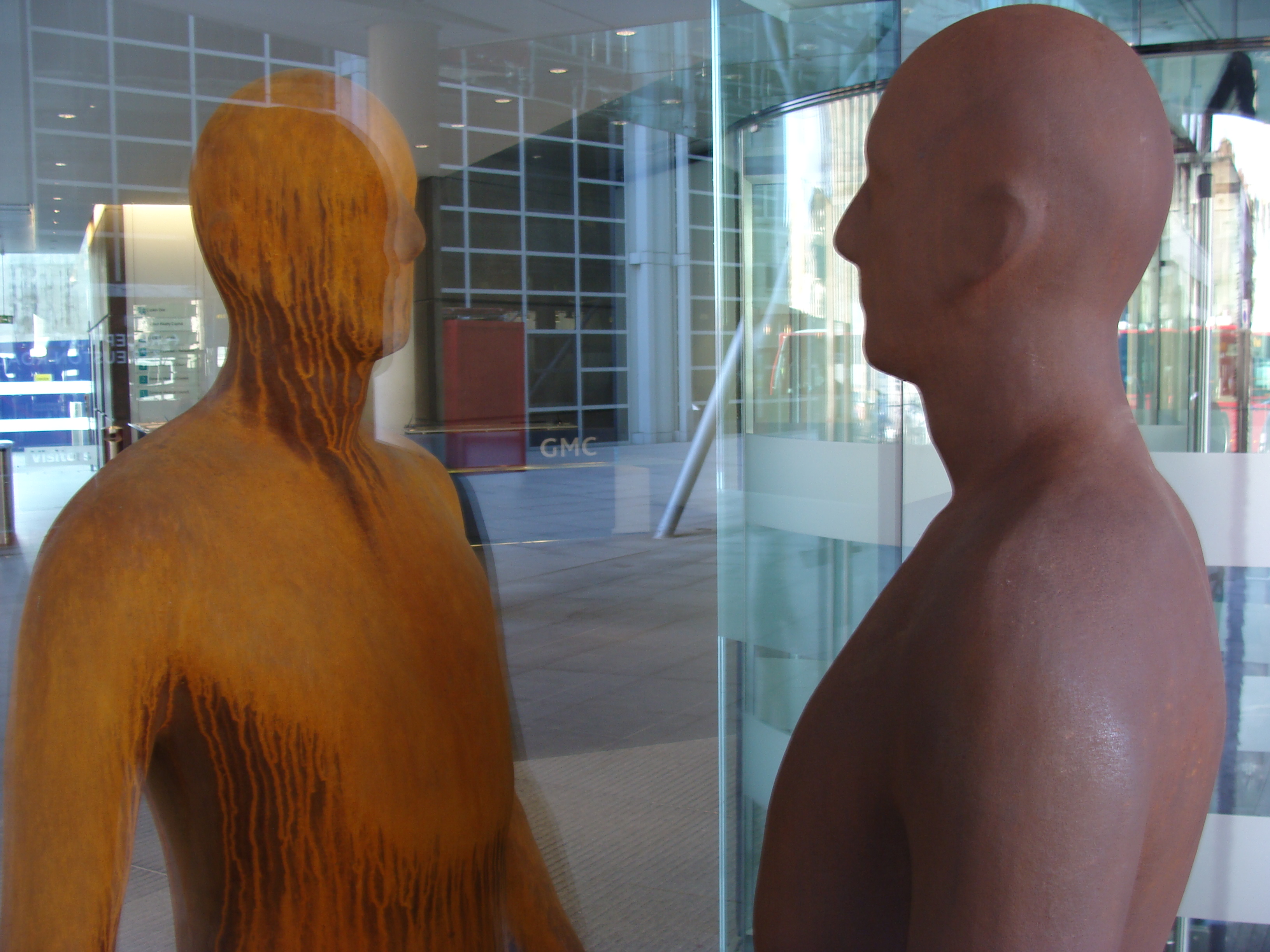 Anthony Gormley (english, born 1950): Pair of cast iron figures at Regent's Place in Euston Road, London. The figures face each other through a plate glass wall. In fact, the placing is not exact so the reflection does not quite match the opposing figure, but it is close enough - the first assumption is that there is just one figure. The obvious rust is on the figure inside the building: the other has weathered to a completely different colour.